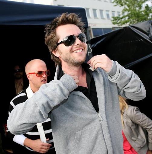 Musician and composer Espen Lind